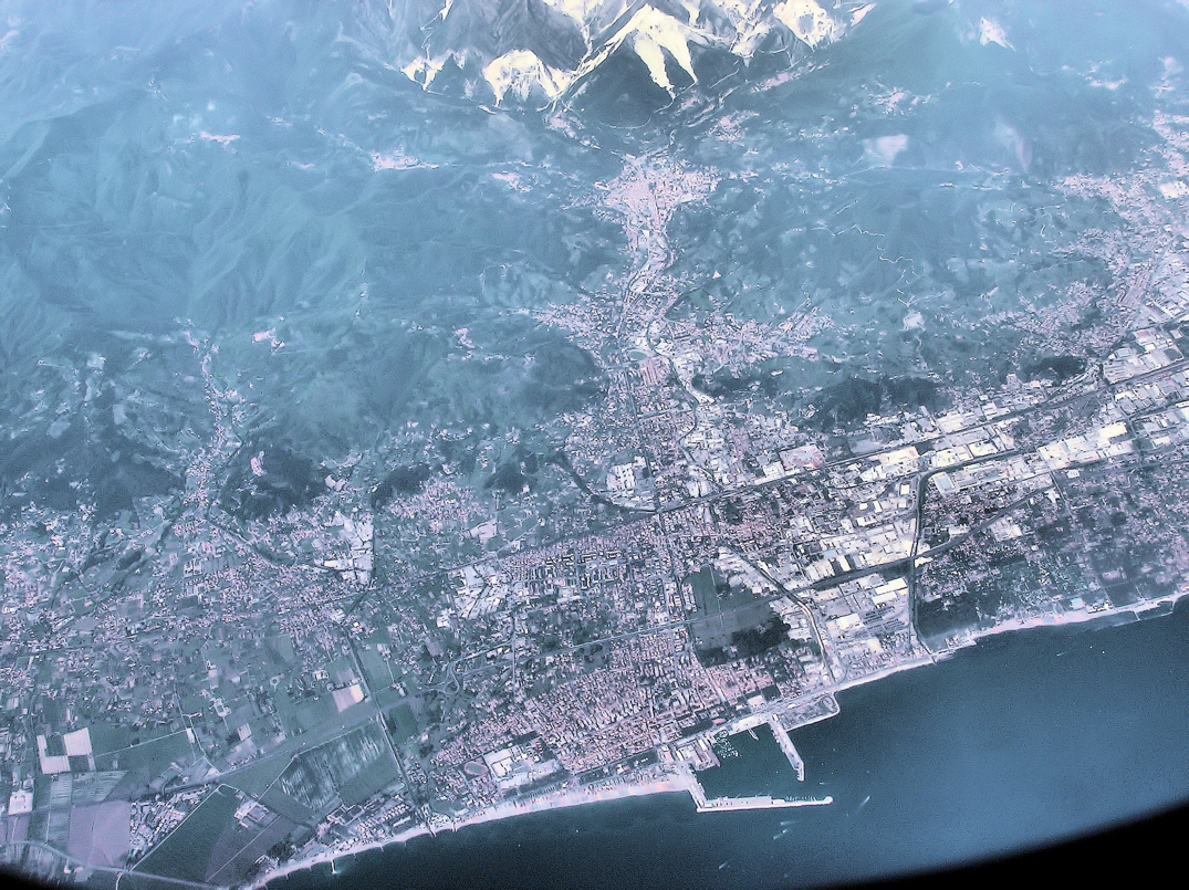 Carrara (Italy) and its marble quarries, seen from a easyJet Airbus A319 flying at 35000 feet between Bristol (England) and Rome. Carrara is the town nearest to the white mountains. The white on the mountains is the quarries, it's not snow! Sorry about the rubbish quality (thanks to a dirty aircraft window, a very hazy day, and the ground was 7 miles below me) but I think the picture is worth having on Wikipedia.